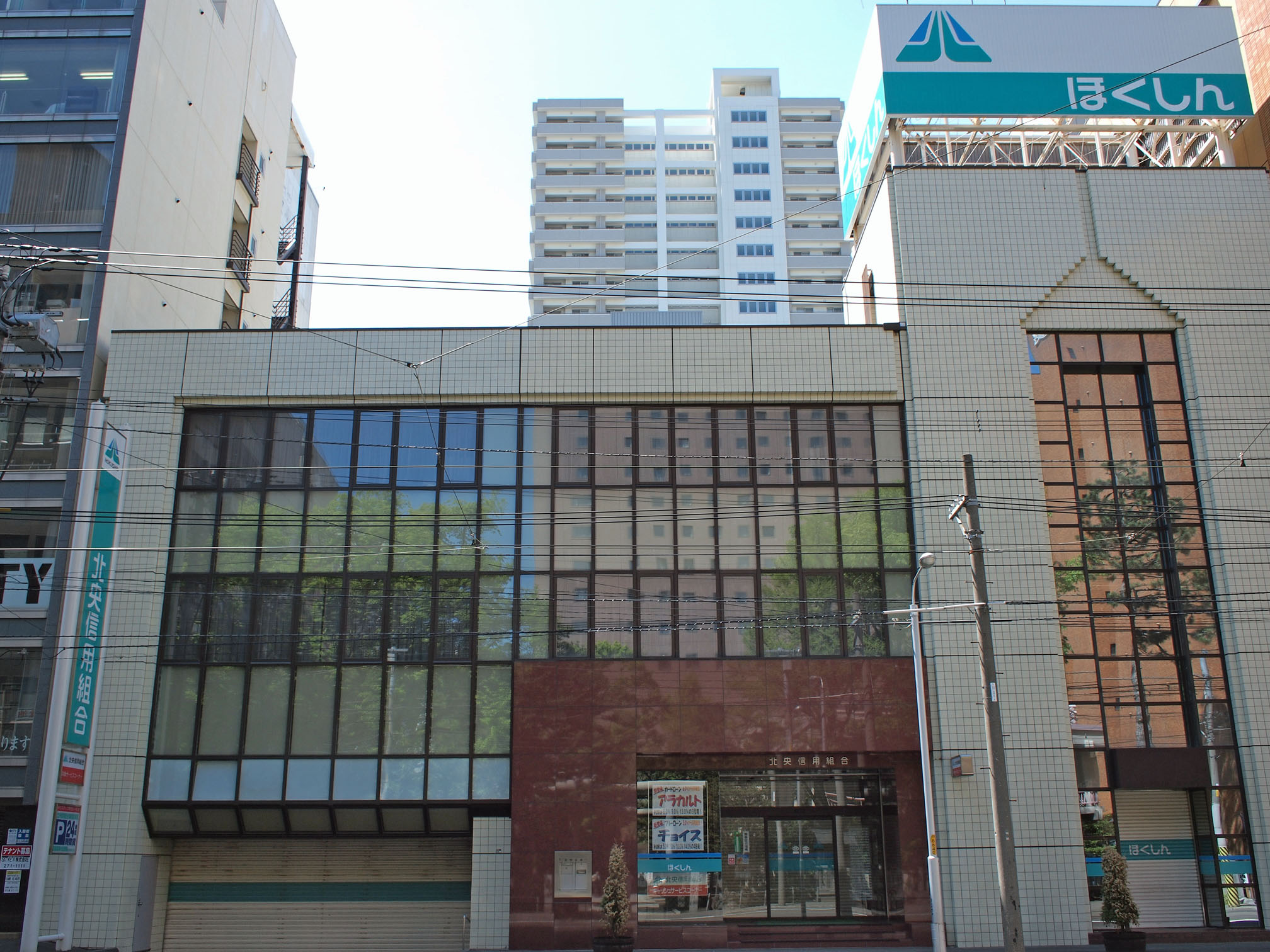 Hokuo credit union, Sapporo, Hokkaido, Japan